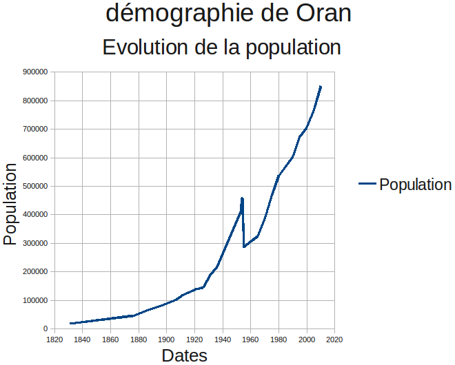 Oran's population.